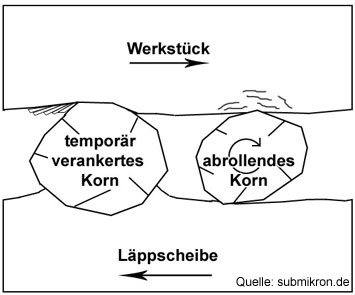 Lapping process